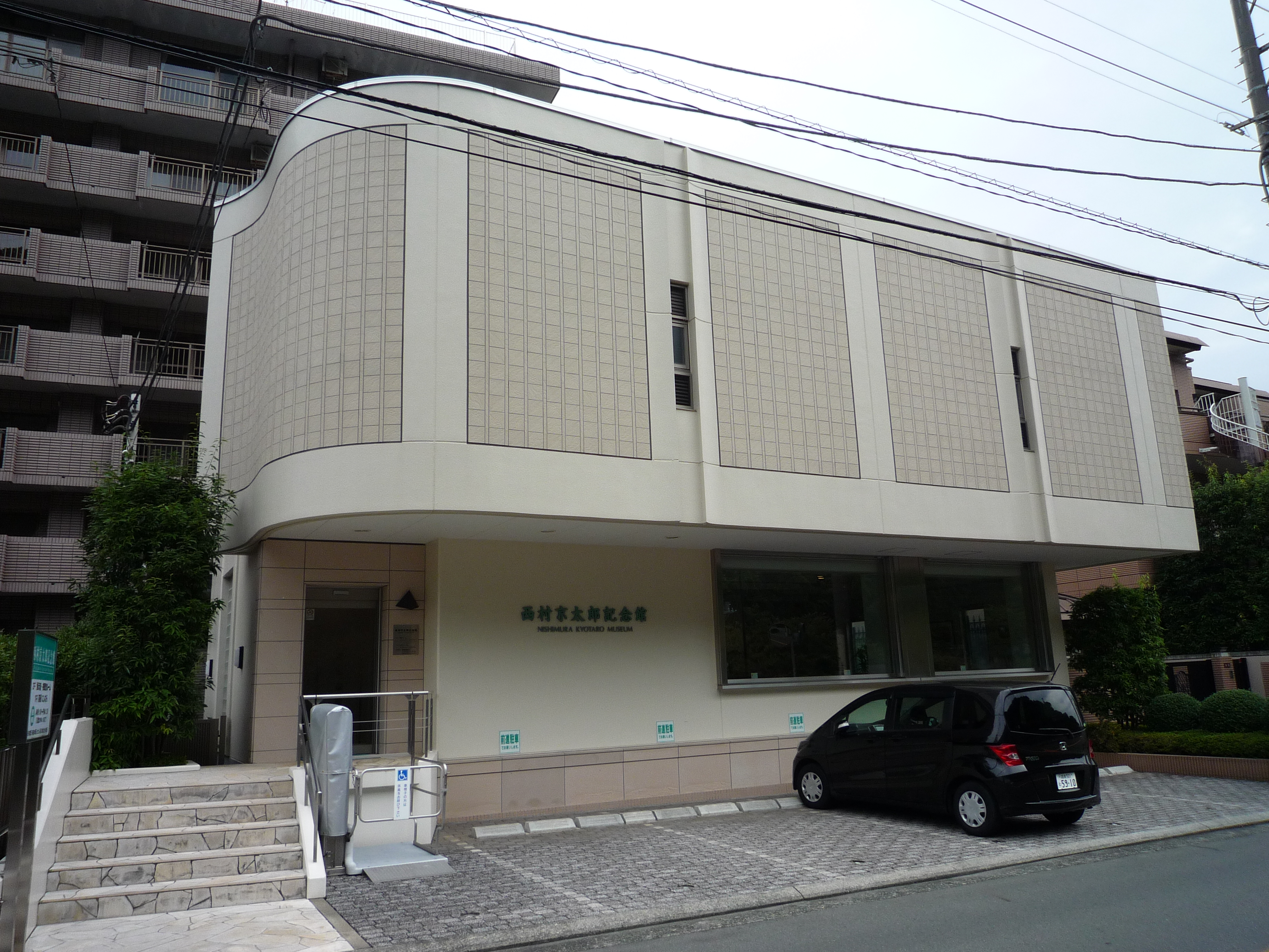 Nishimura Kyotaro Museum in Yugawara, Kanagawa Pref. Japan. 中文（台灣）: 西村京太郎紀念館, 位於日本神奈川縣湯河原町.